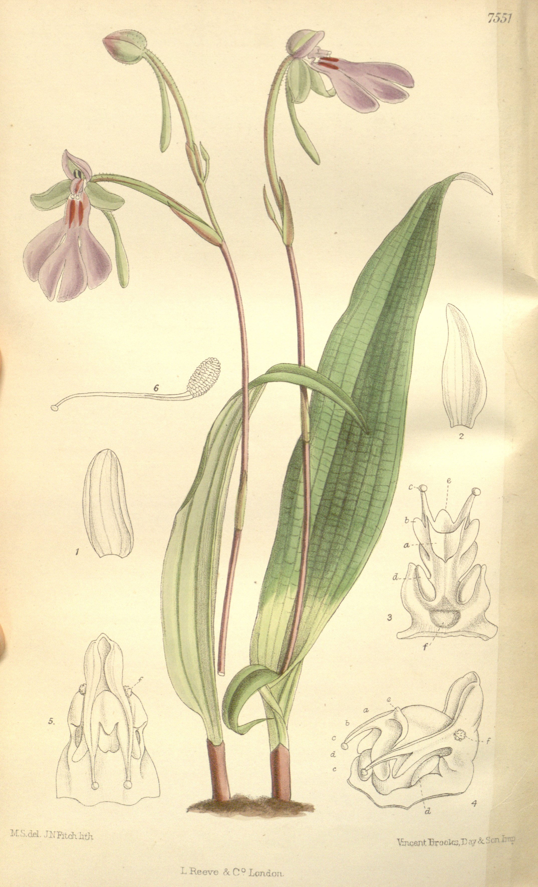 Illustration of Cynorkis purpurascens (as Cynorchis purpurascens)